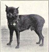 Toy Brabantine from 1915